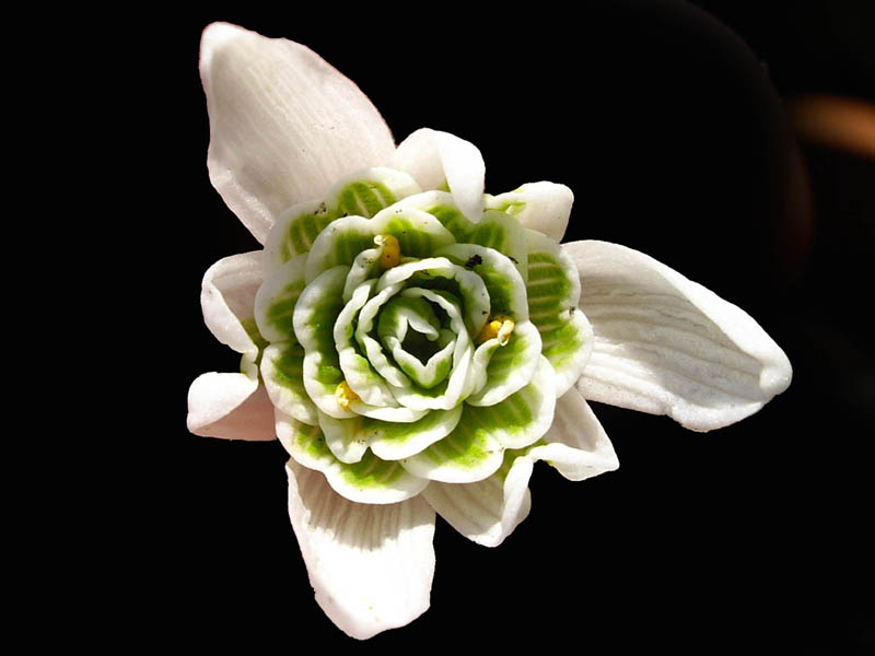 Galanthus nivalis 'Flore Pleno'